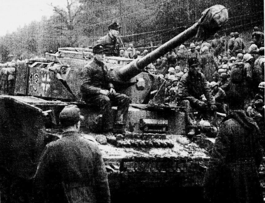 Panzertroops in actions (Ardenns offensive 1944)